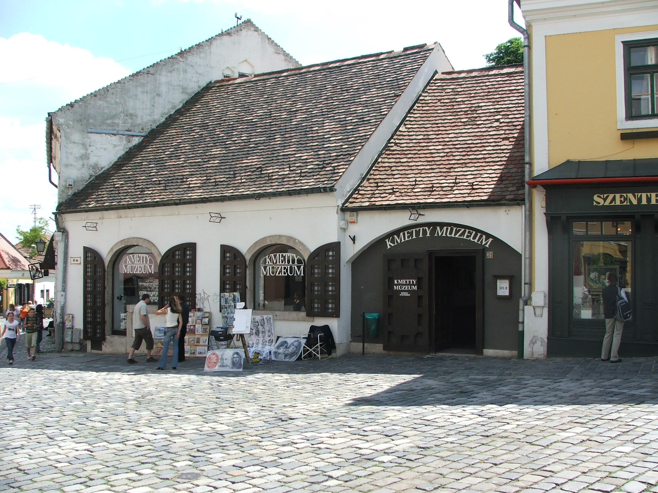 The museum of Kmetty János in Szentendre, Hungary.